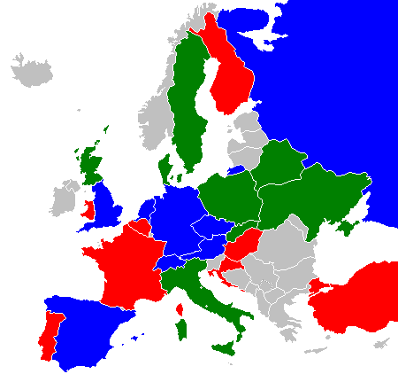 Men's participants of 2012 Indoor hockey European championhips Top division II. division III. division